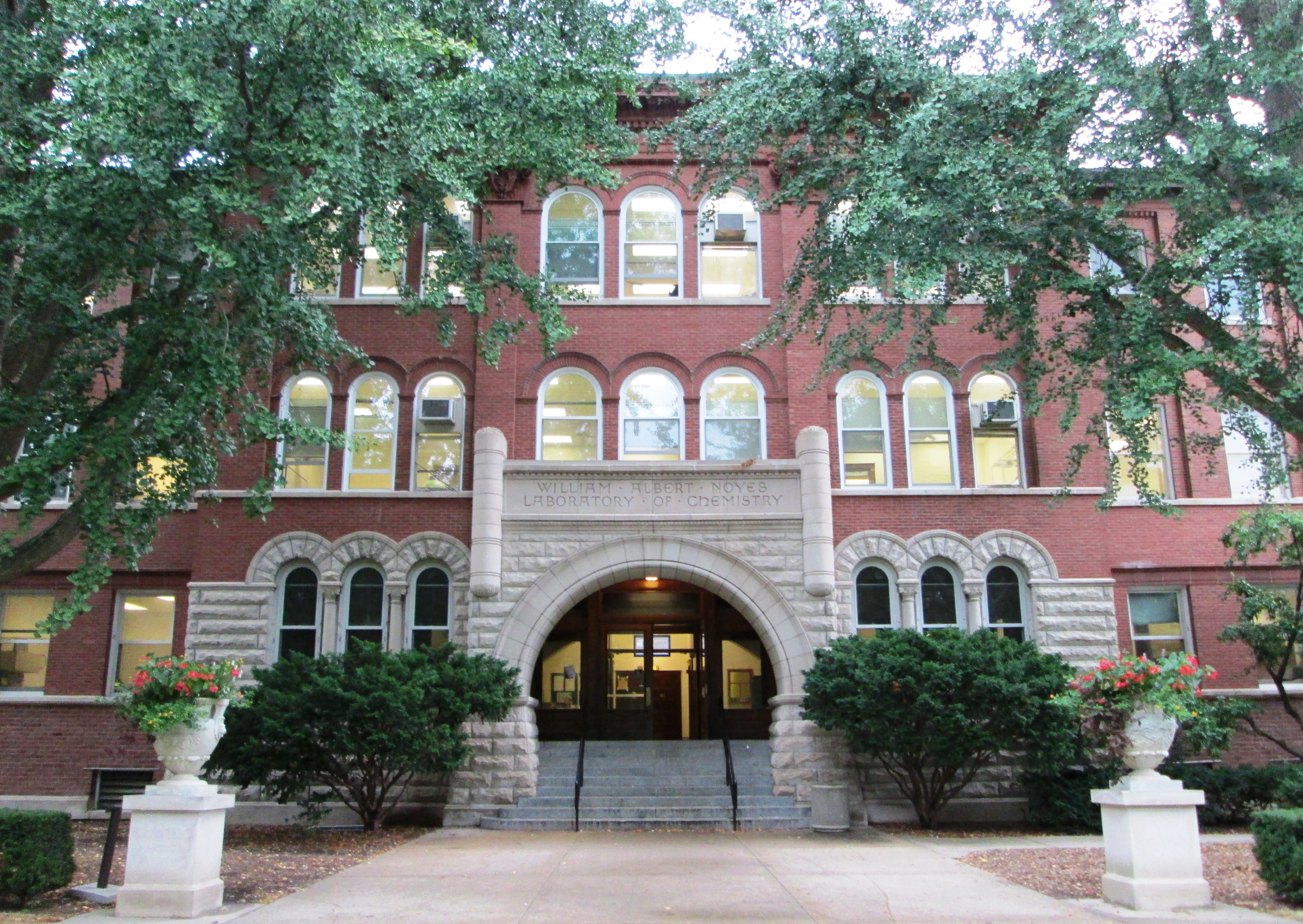 The William Albert Noyes Laboratory of Chemistry, located at 505 S. Mathews Avenue in Urbana, Illinois on the campus of the University of Illinois at Urbana-Champaign, was built in 1902 as the "New Chemical Laboratory", and was designed by Nelson Strong Spencer in the Richardsonian Romanesque style. The building had 77,884 square feet of usable space, and was built at the cost of under $100,000. Ten years later more space was needed, and the east wing, with 86,396 square feet of additional space, was built in 1915-16 at the cost of $250,000. The building then housed the largest chemistry department in the United States at the time. In 1939 the building was dedicated in honor of the influential UI chemist William A. Noyes. It was designated a National Historic Chemical Landmark by the American Chemical Society in 2002, in recognition of the many contributions to the chemical sciences that have been made there over the last 100 years.